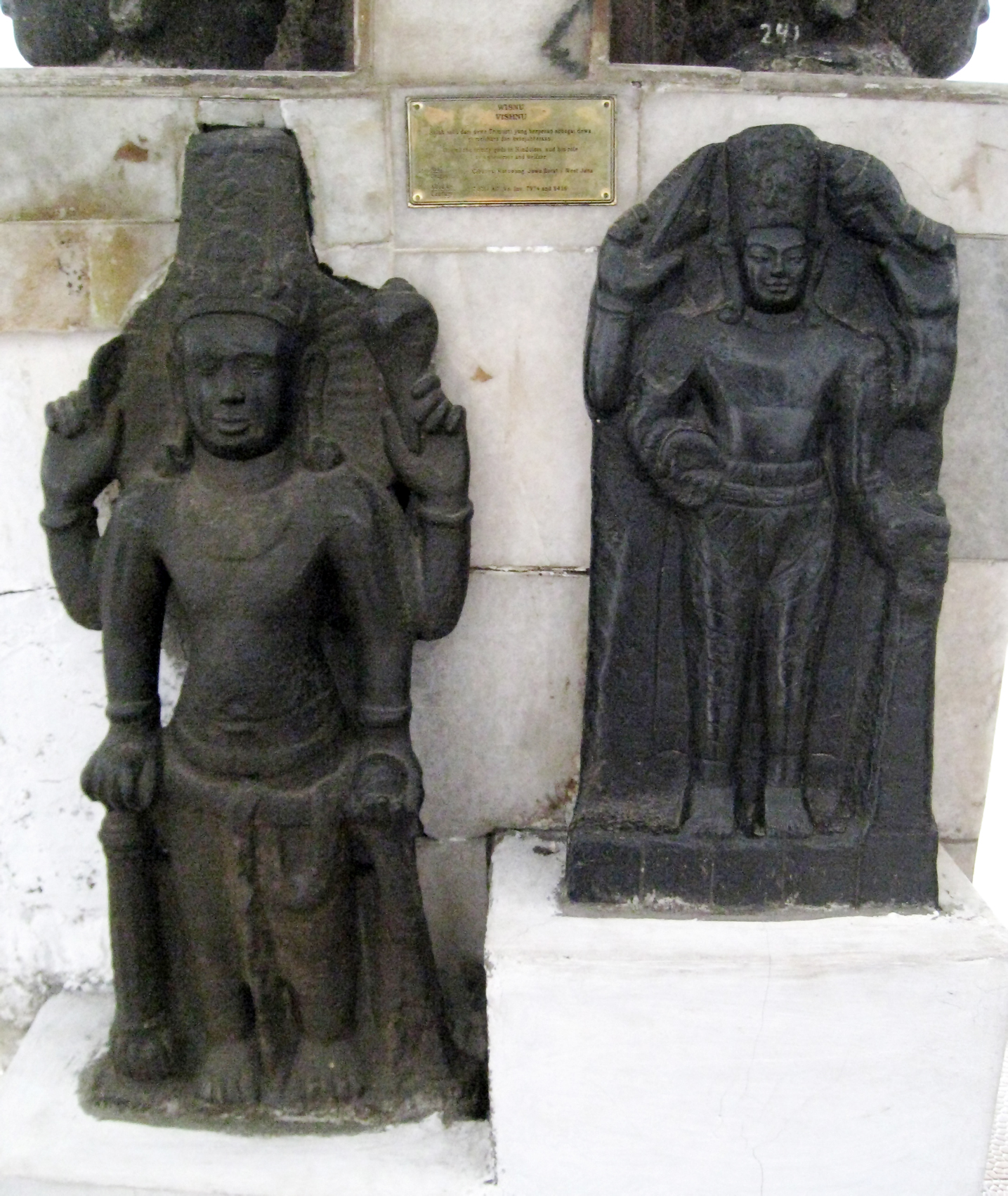 Two Vishnu statues discovered in Cibuaya site, Karawang, West Java. Estimated originated from Tarumanagara kingdom c. 7th-8th century CE. Collection of National Museum of Indonesia, Jakarta Inv. 7974 and 8416. Vishnu is Hindu god of preserver, the tubular crown bears similarities with Cambodian Khmer art.